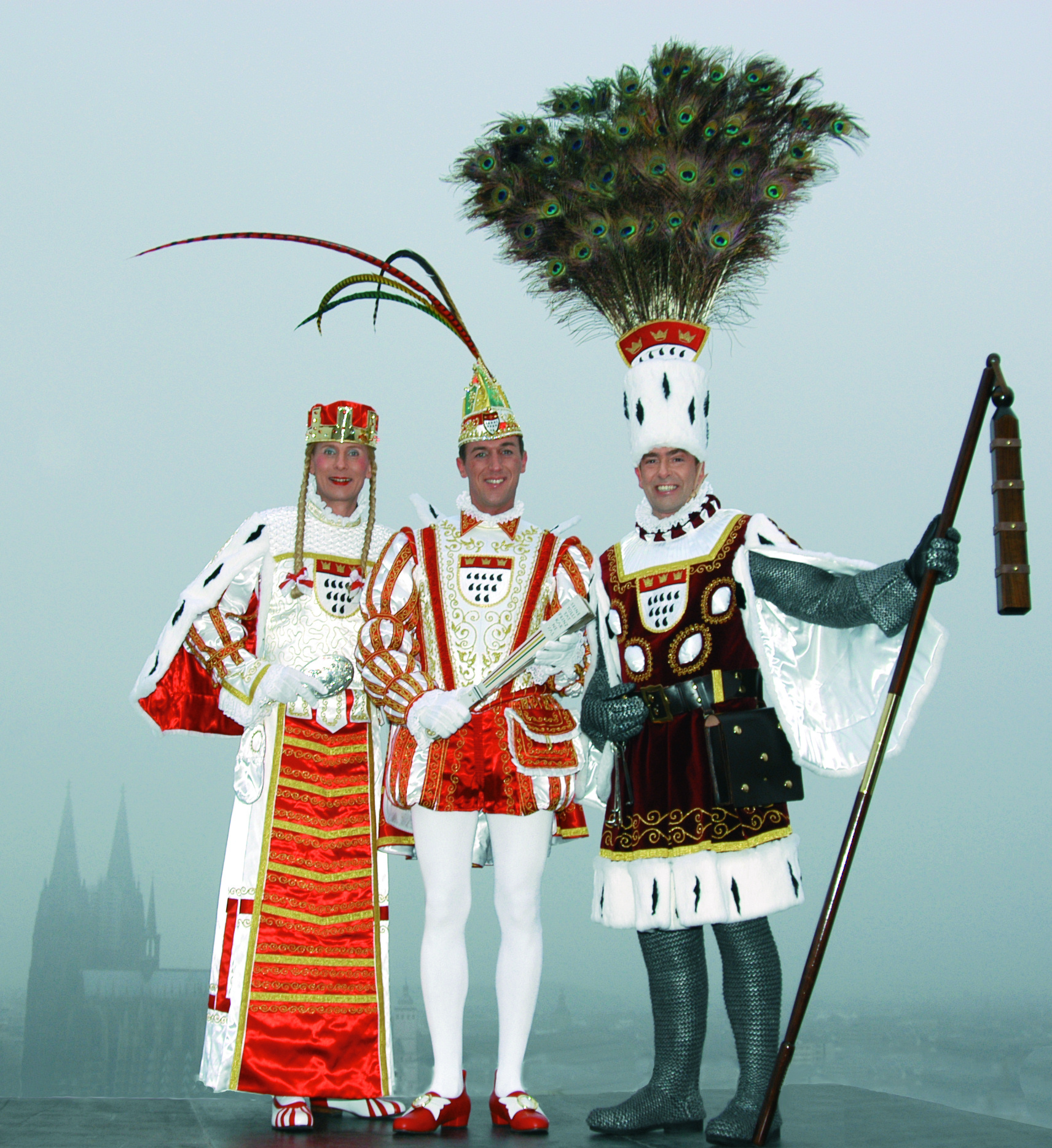 The 'Trifolium' (trefoil, or cloverleaf), or representatives of the Cologne Carnival, are the three characters of the Prince, the Peasant and the Virgin. The Prince is the prince of the carnival itself, the Peasant represents the wealth and the defensive strength of the city of Cologne, whilst the Virgin symbolises the virtue and beauty of the city. In this photograph for the 2005 carnival, the Trifolium are drawn from members of the festival club Kölnische Karnevalsgesellschaft 1945 e.V. (from left to right) Virgin Claudia (Claus Frohn) - by tradition, the Virgin is played by a man Prince Walter II. (Walter-Ferdinand Passmann) Peasant Uli (Uli Döres)